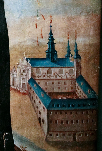 monastery and church of Trinitarians